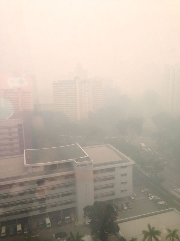 This picture shows the effect of the 2013 Southeast Asian haze on Singapore taken at Tiong Bahru, Singapore on 21 June 2013 at 1247PM with an estimated PSI of 300.